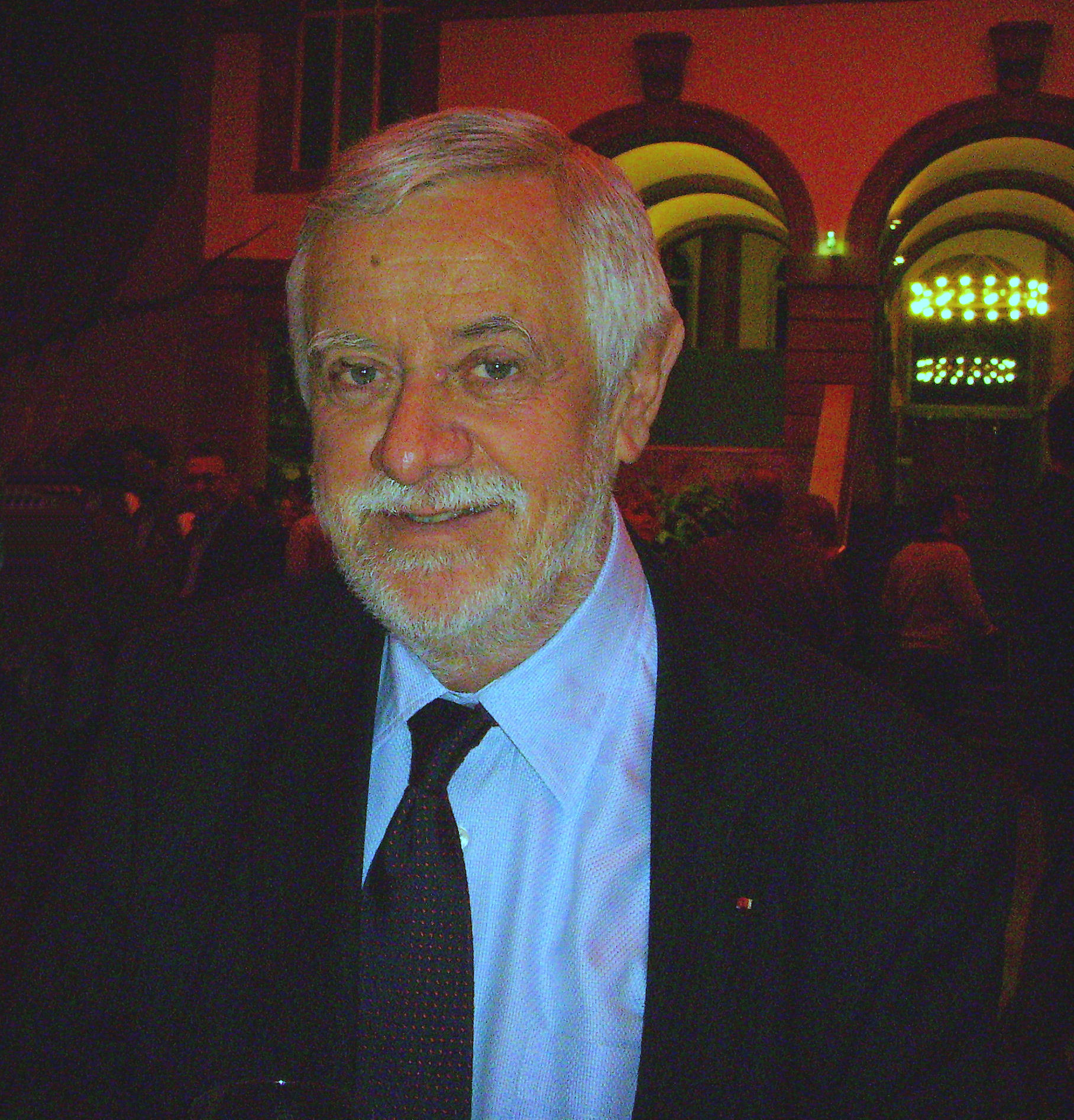 Prof. Yves Coppens, French palaeanthropologist Date: November 15, 2006 Place: Senckenberg-Museum, Frankfurt am Main, Germany author: myself; Gerbil from de.Wikipedia